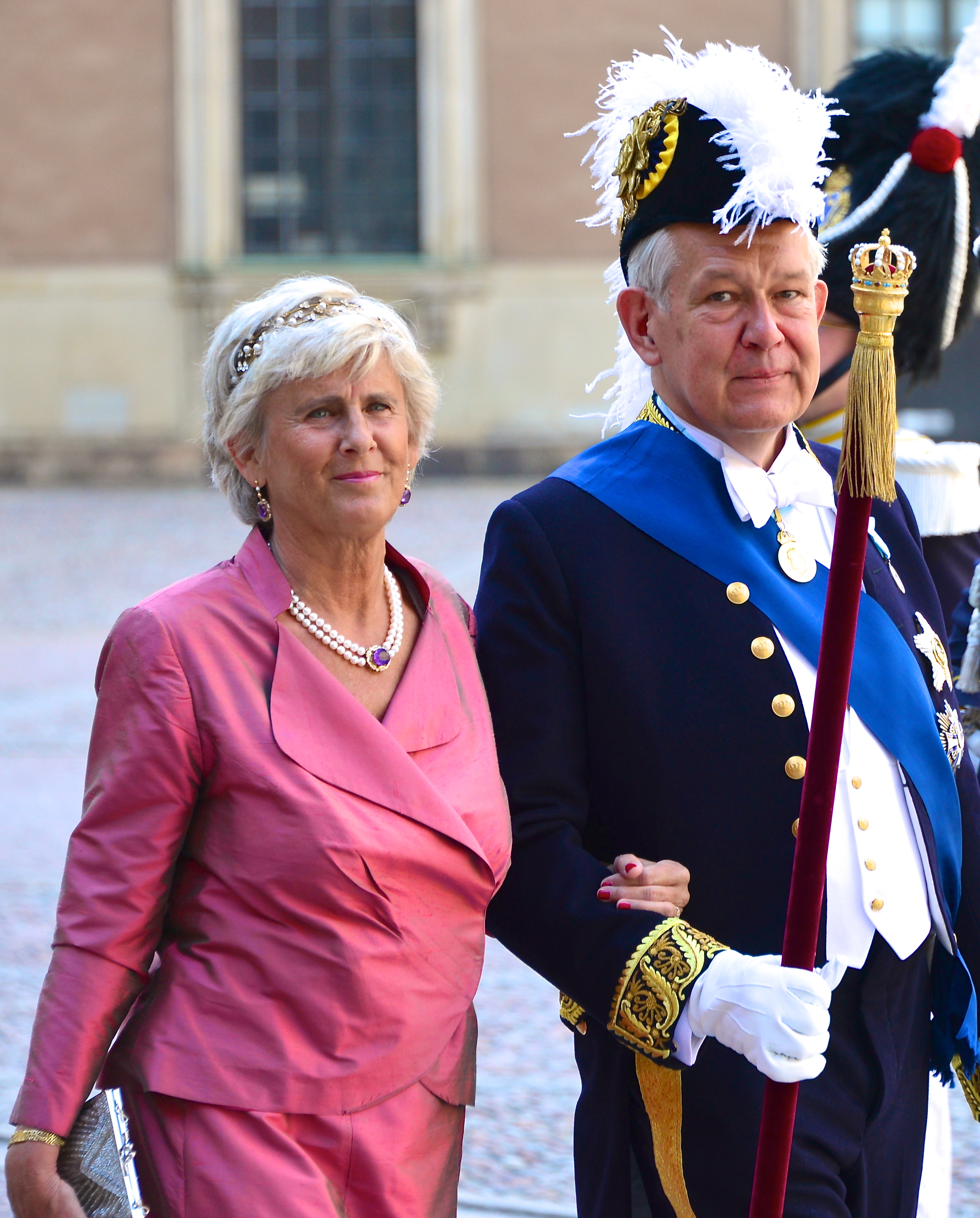 Svante Lindqvist with his wife Catharina on the way to the castle church at the Royal Palace in Stockholm before the wedding between Princess Madeleine and Christopher O'Neill June 8, 2013.